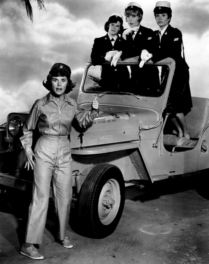 Photo of the female cast of the television program Broadside. Standing: Kathy Nolan, In jeep, from left: Sheila James, Joan Staley, and Lois Roberts.